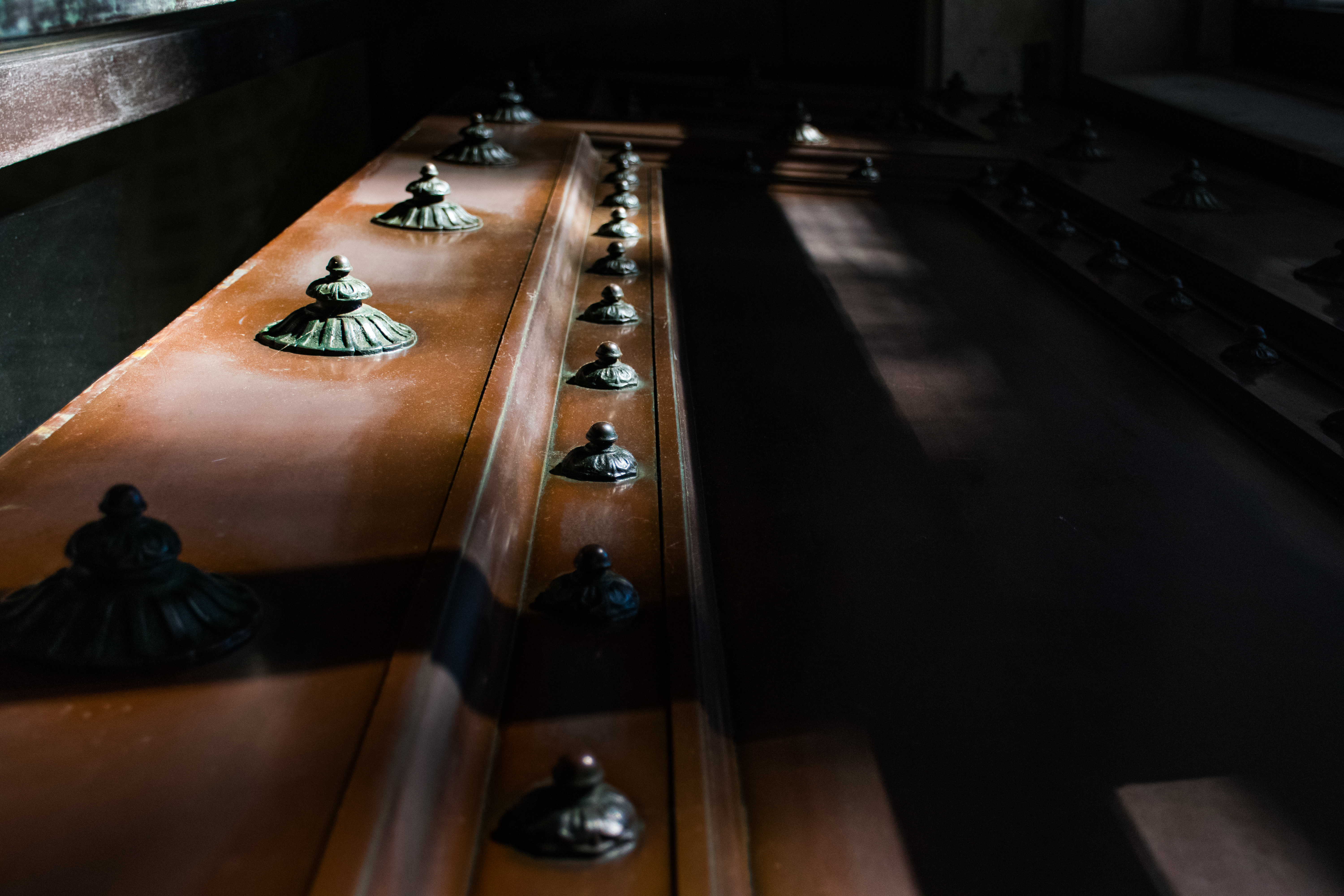 Grant's Tomb, interior detail Site: Grant's Tomb. OHNY Honorable Mention for detail.